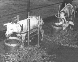 Goats on deck of test ship, waiting to be irradiated by the Able test of Operation Crossroads